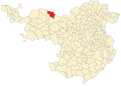 Molló